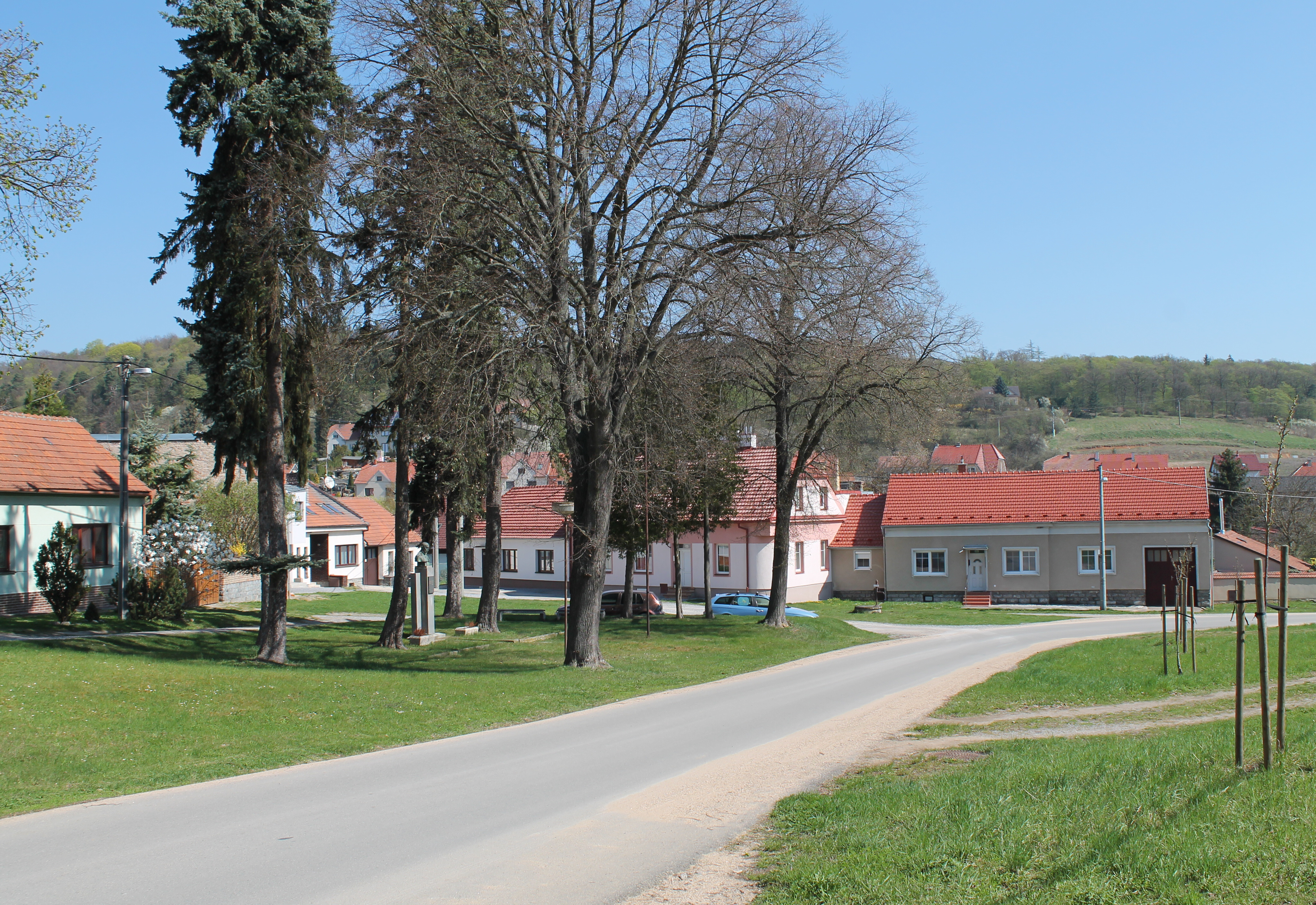 Obce, Ochoz u Brna, Brno-Country District, Czech Republic